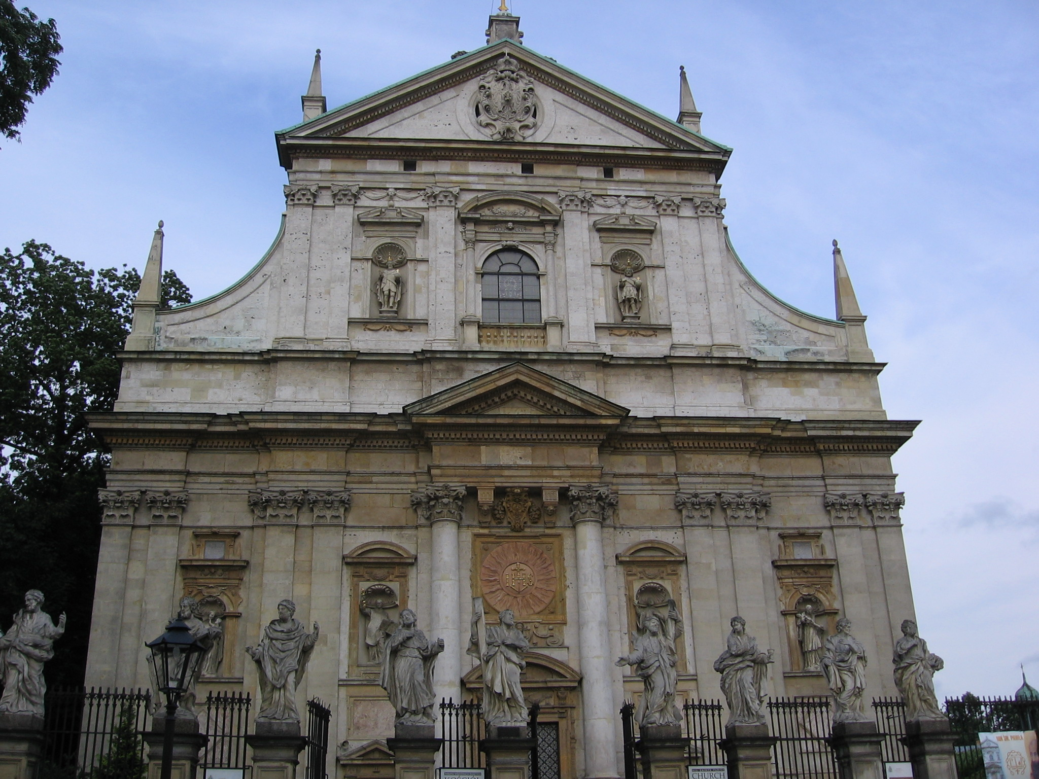 View of the curch of st. Peter and Paul in Kraków, Poland.